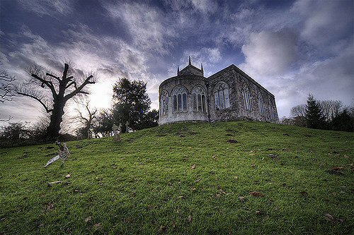 Moreton St Nicholas Church. The church was restored in 1950 and all the windows contain engraved glass designed by Laurence Whistler.